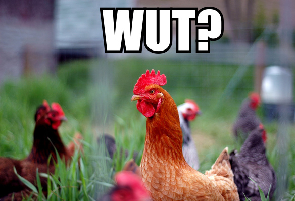 Created with roflbot